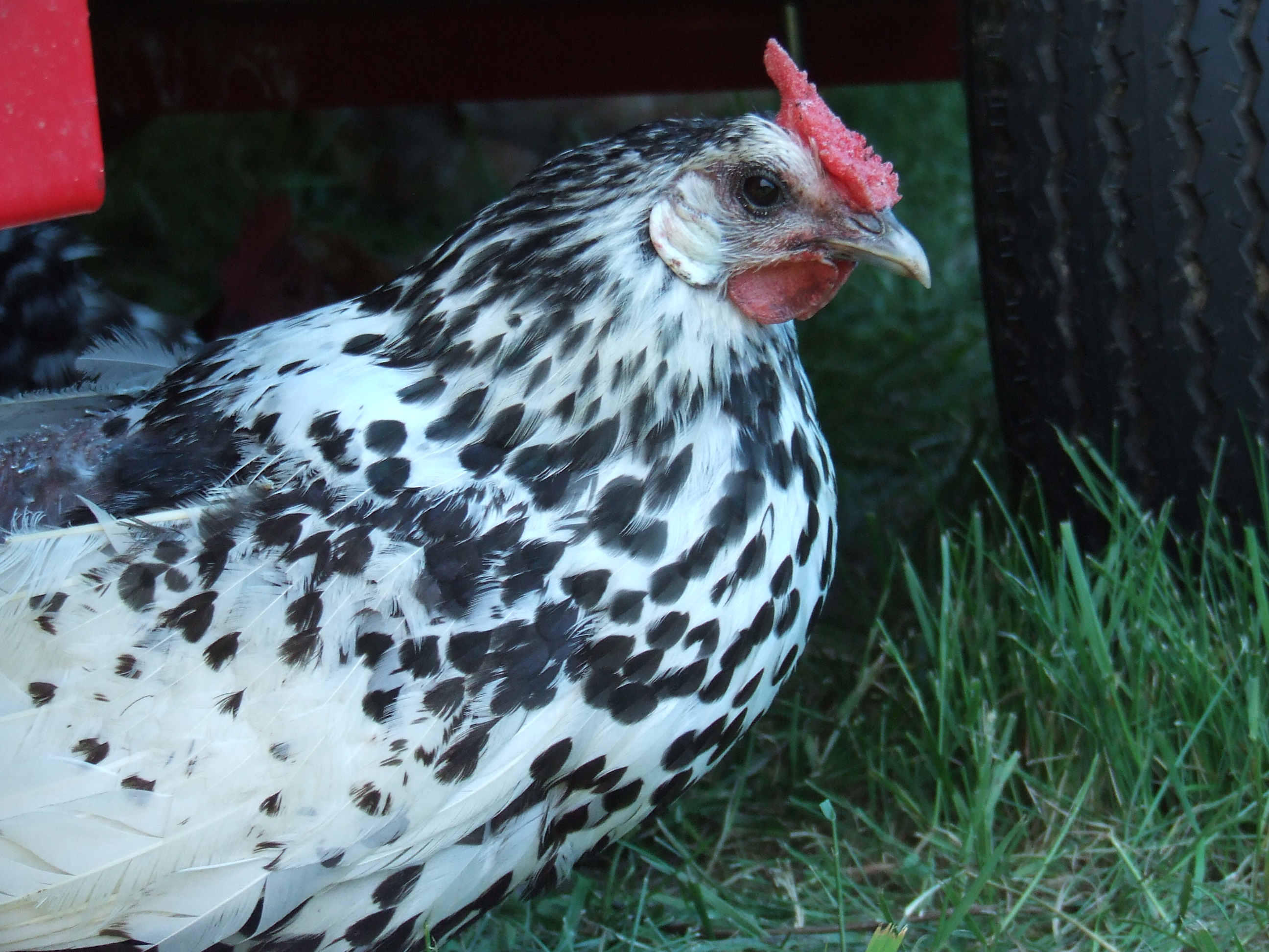 A hen, most likely a Silver Spangled Hamburg (or Hamburgh).